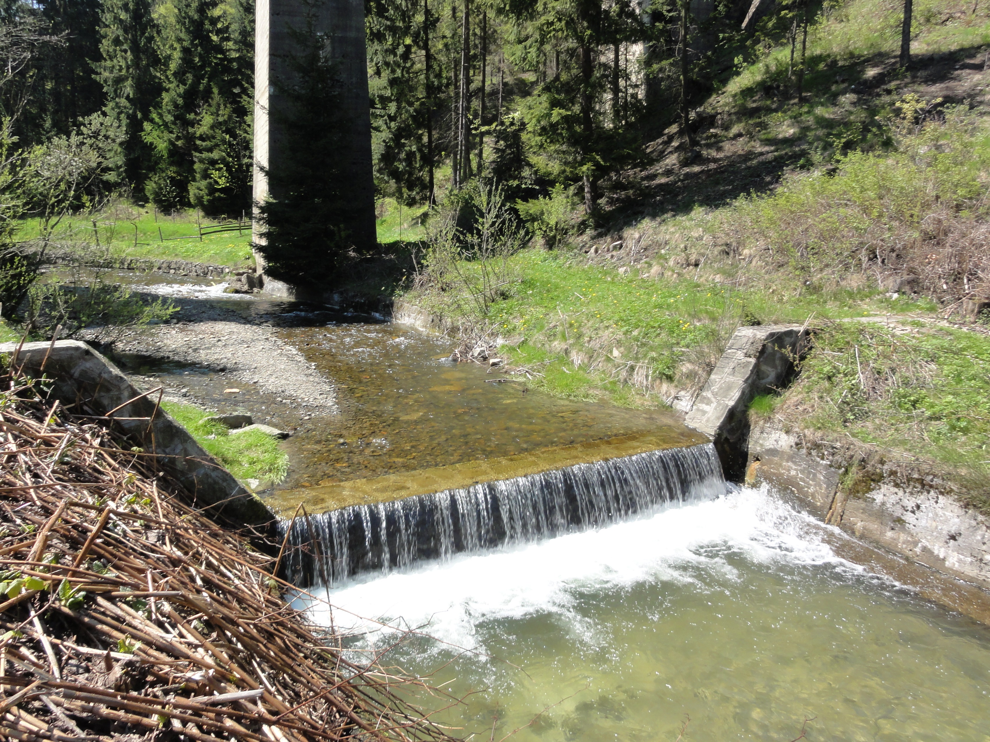 River Łabajów under railway bridge in Wisła